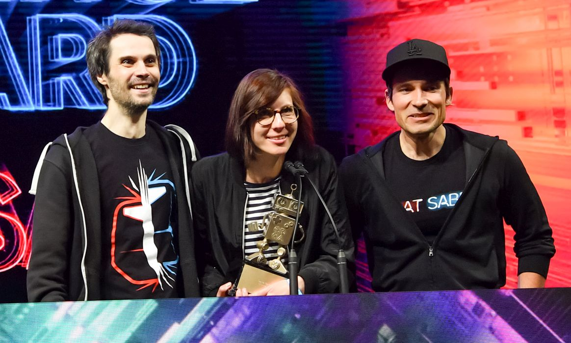 (L-R) Vladimír "Loki" Hrinčár, Michaela Dvorakova, and Jaroslav Beck, at the Game Developers Choice Awards during the Game Developers Conference 2019